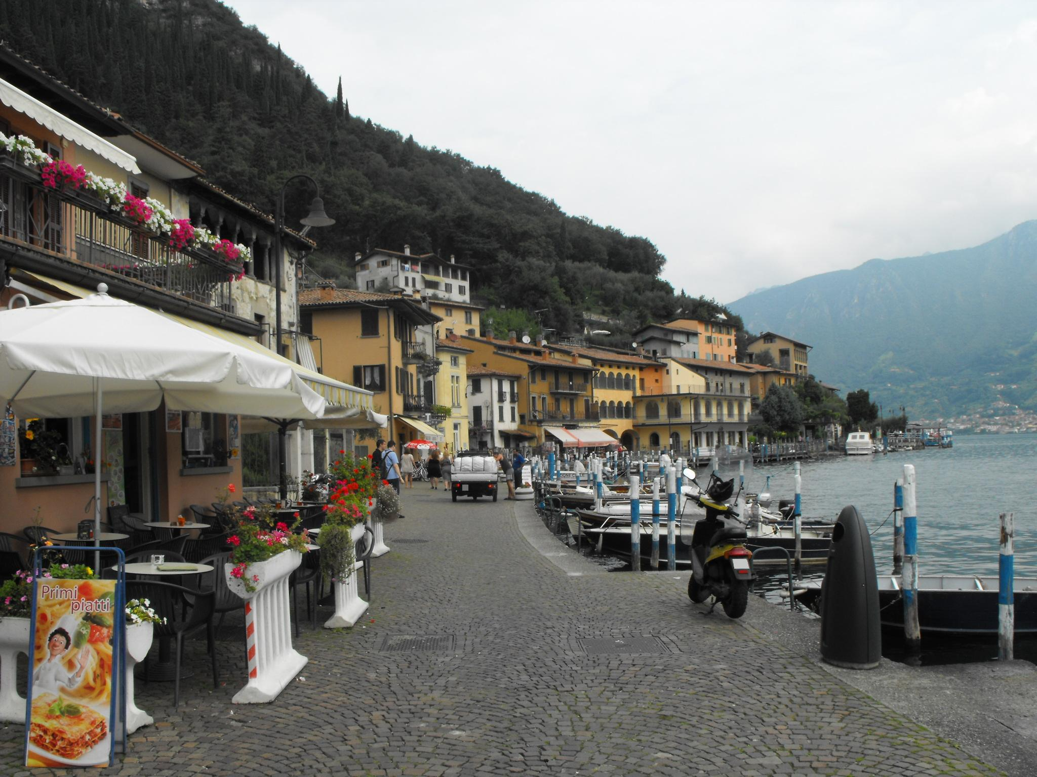 Street of Peschiera Maraglio on Monte Isola - Lake Iseo Lombardy - Italy